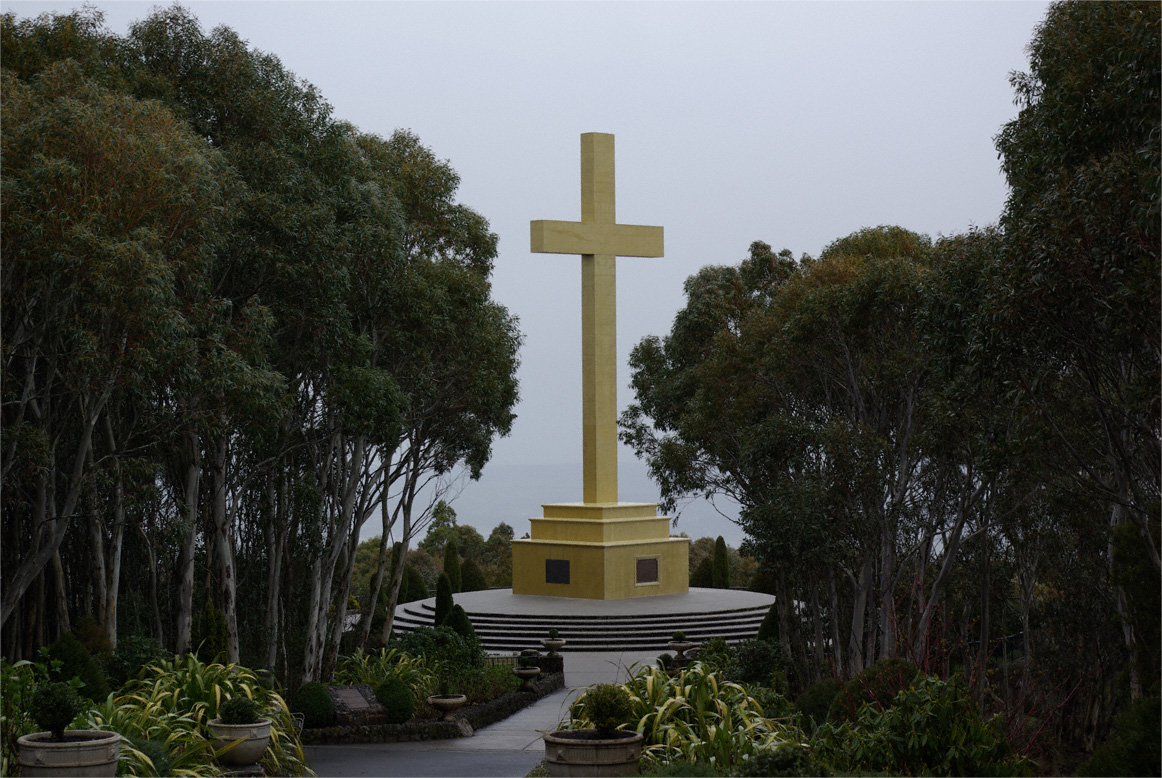 Photo shows memorial cross atop of Mount Macedon, Victoria. This photo at its lowered resolution with embedded watermark is released under the Creative Commons Attribution ShareAlike License version 3.0. If you wish to use the higher resolution shot under a different license, please get in contact with me. Original Photo taken with: Samsung GX10 ISO-100,72dpi,3872x2592 pixels (10MP shot).